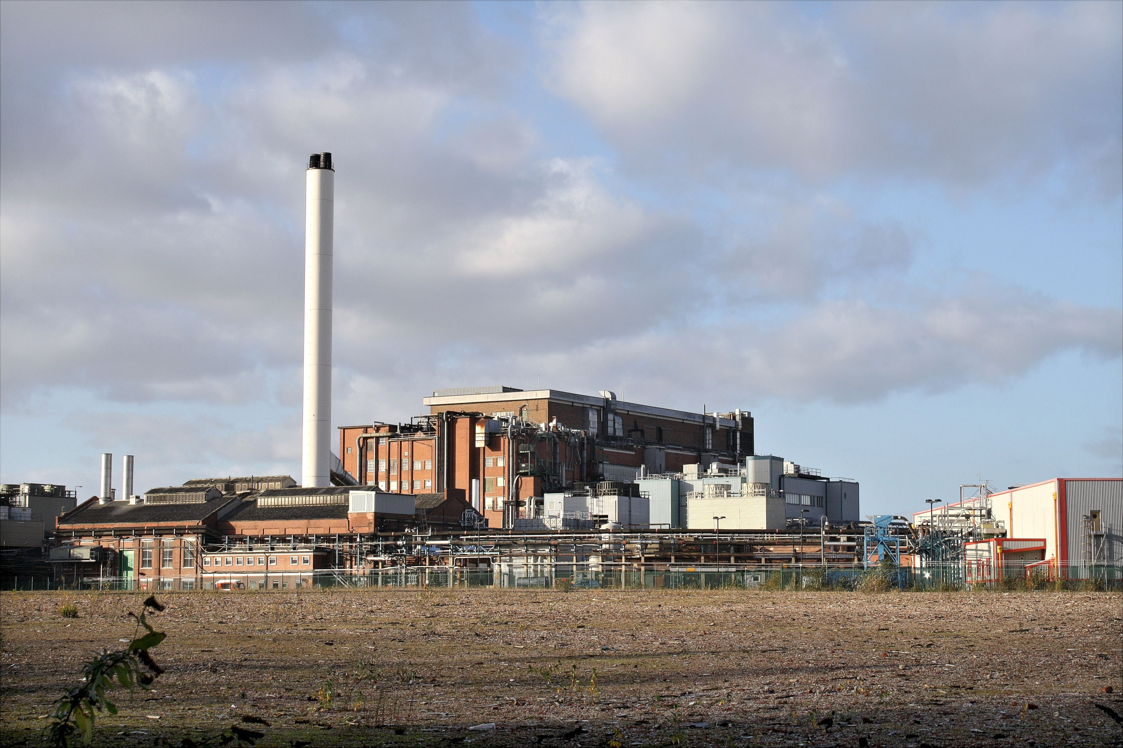 The Harrow factory is Kodak's largest and oldest in the UK. It was opened in 1896 and is currently used for the manufacture Ektacolor photographic paper and a wide range of graphics film materials for the printing and publishing industry. Graphics research and development is also carried out at the plant. Much of the land around the site is disused and, as at the Autumn of 2011, Harrow Council is making plans for its future. On 19 January 2012 the parent company, the 131-year-old firm of Eastman Kodak based in Rochester in New York State, stated that it had filed for bankruptcy protection. What does that bode for the future of the Harrow factory?